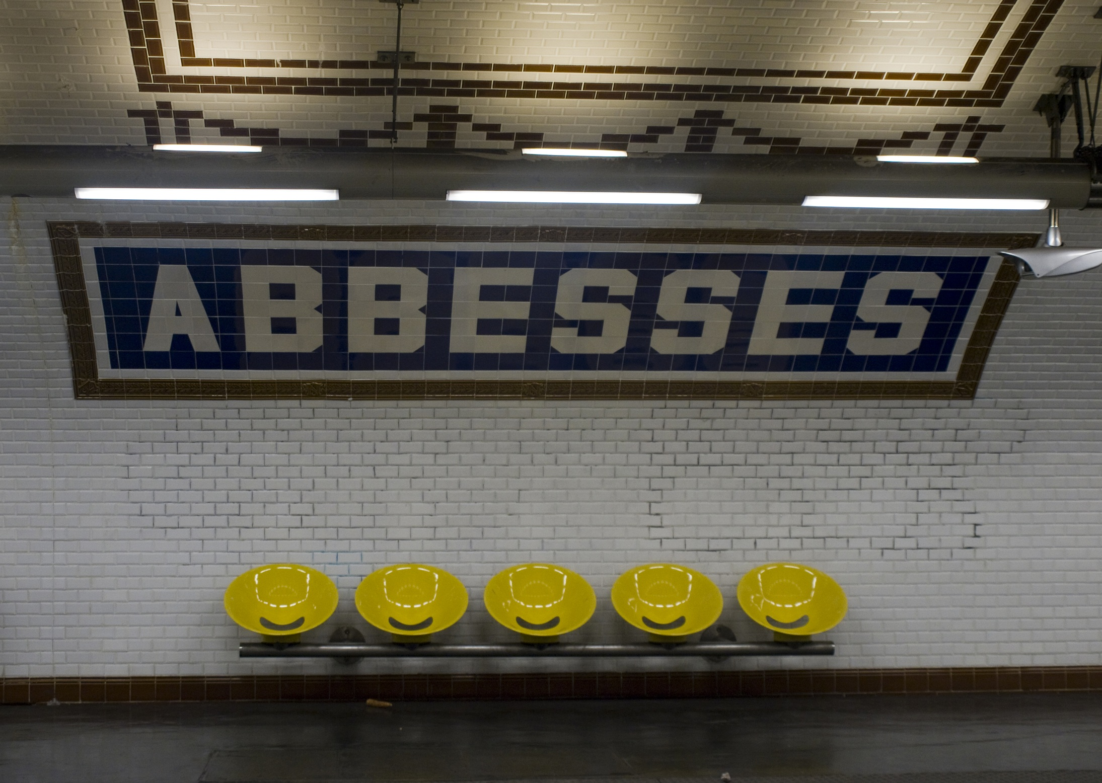 Abbesses metro station, Paris